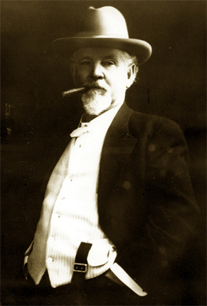 Picture of John Donald Daly.